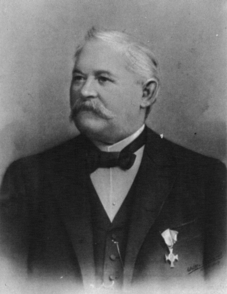 Georg Christian Blisse (29.1.1823 Berlin-Wilmersdorf – 30.12.1905 Wilmersdorf). A rich farmer in Berlin-Wilmersdorf